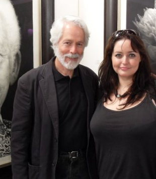 Paul Emsley in front of his portrait of Nelson Mandela at the Johannesburg Art Fair in 2010.